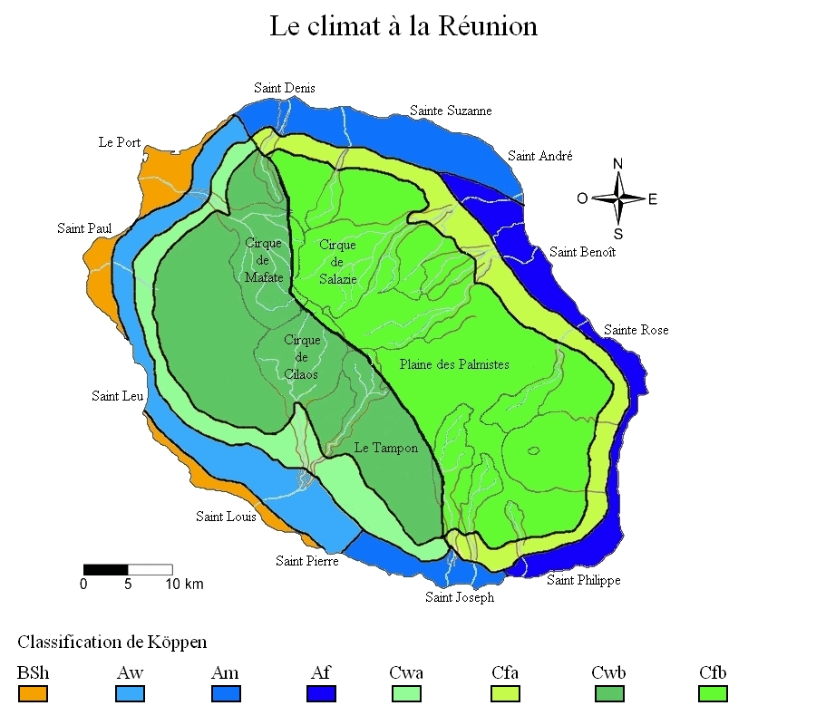 Climate map of Reunion island according to Köppen's climate classification. Personal work based on climate data found on